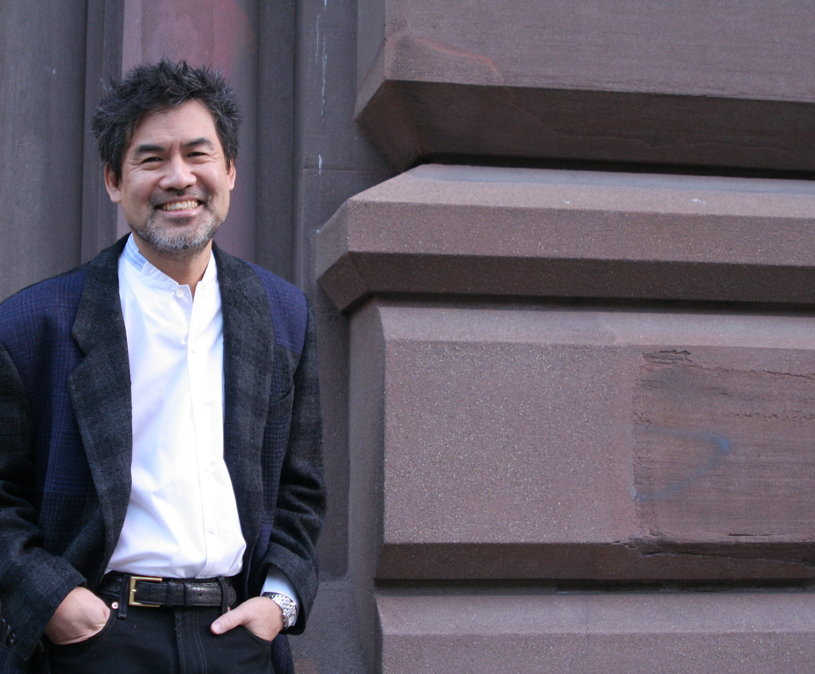 David Henry Hwang at The Public Theater in New York, Photo by Lia Chang